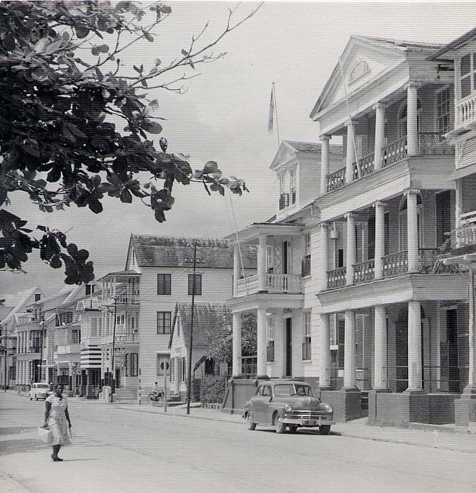 I inherited this photo from my father, Ted Hill, who took it.